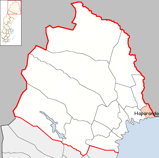 Haparanda Municipality in Norrbotten County Designed by me. Mere outlines are a PD source from